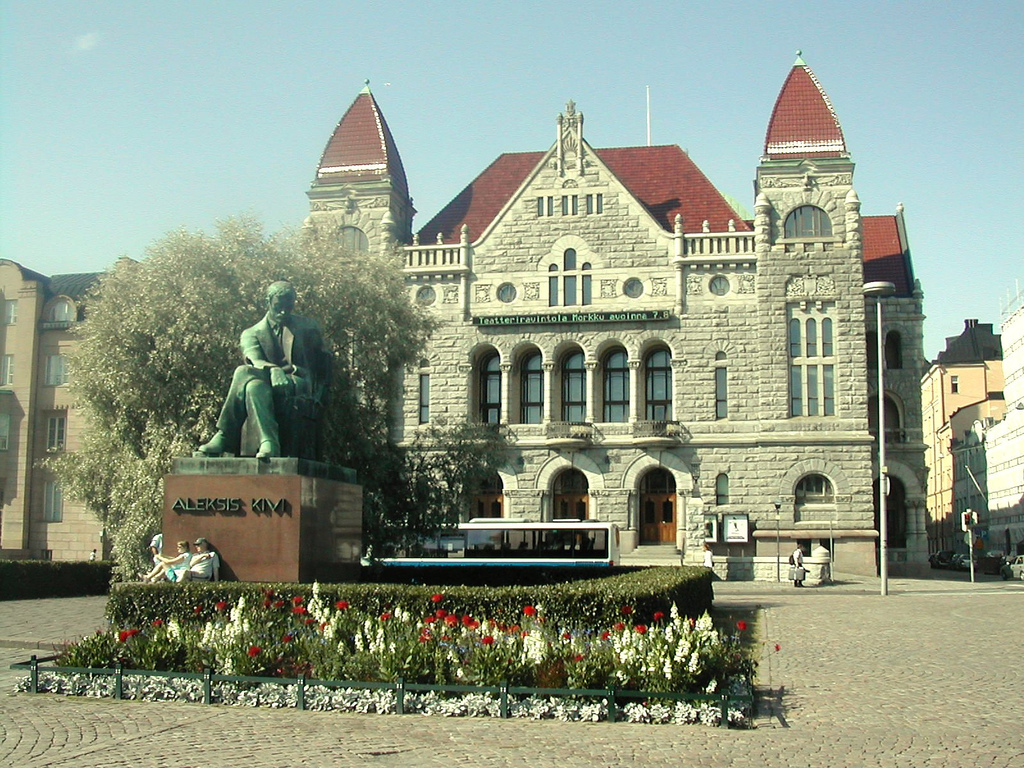 The Finnish National Theater in Helsinki.